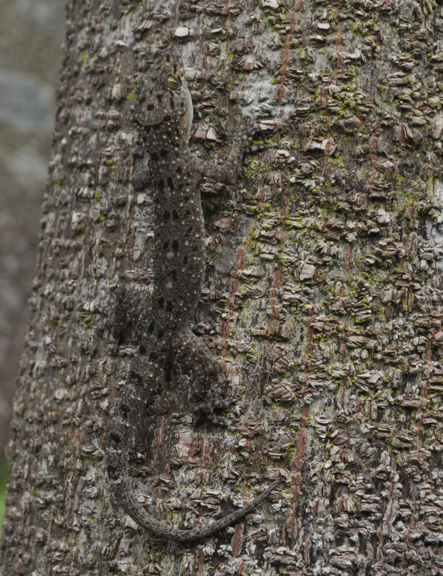 Gekko monarchus, Spotted House Gecko (camouflaged); female, 81mm SVL and 96mm tail length. From oil-palm plantation in Upper Seruyan, Central Kalimantan, Indonesia